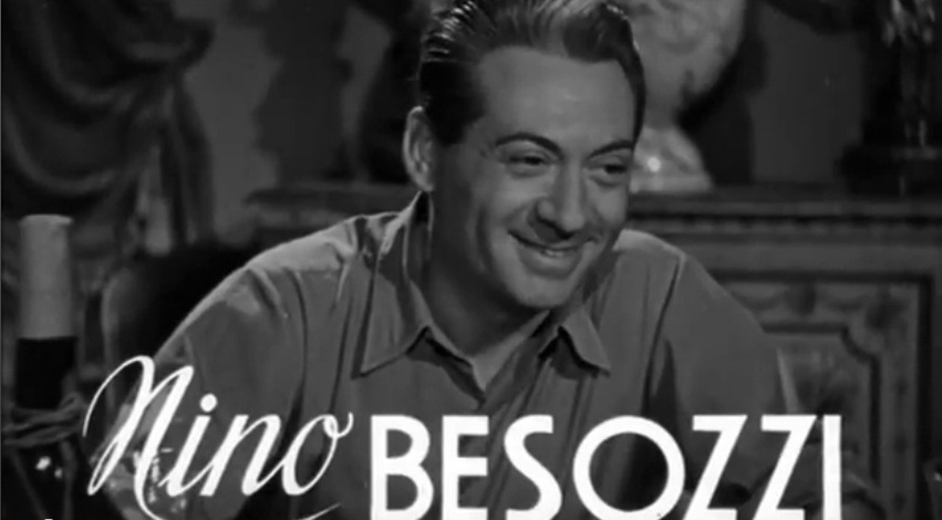 screenshot from the film Abbasso la miseria (1945)